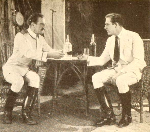 Still with James Kirkwood in the American drama film The Great Impersonation (1921), from page 61 of the November Photoplay. Kirkwood played both a German spy and English gentleman with similar appearances in the film.